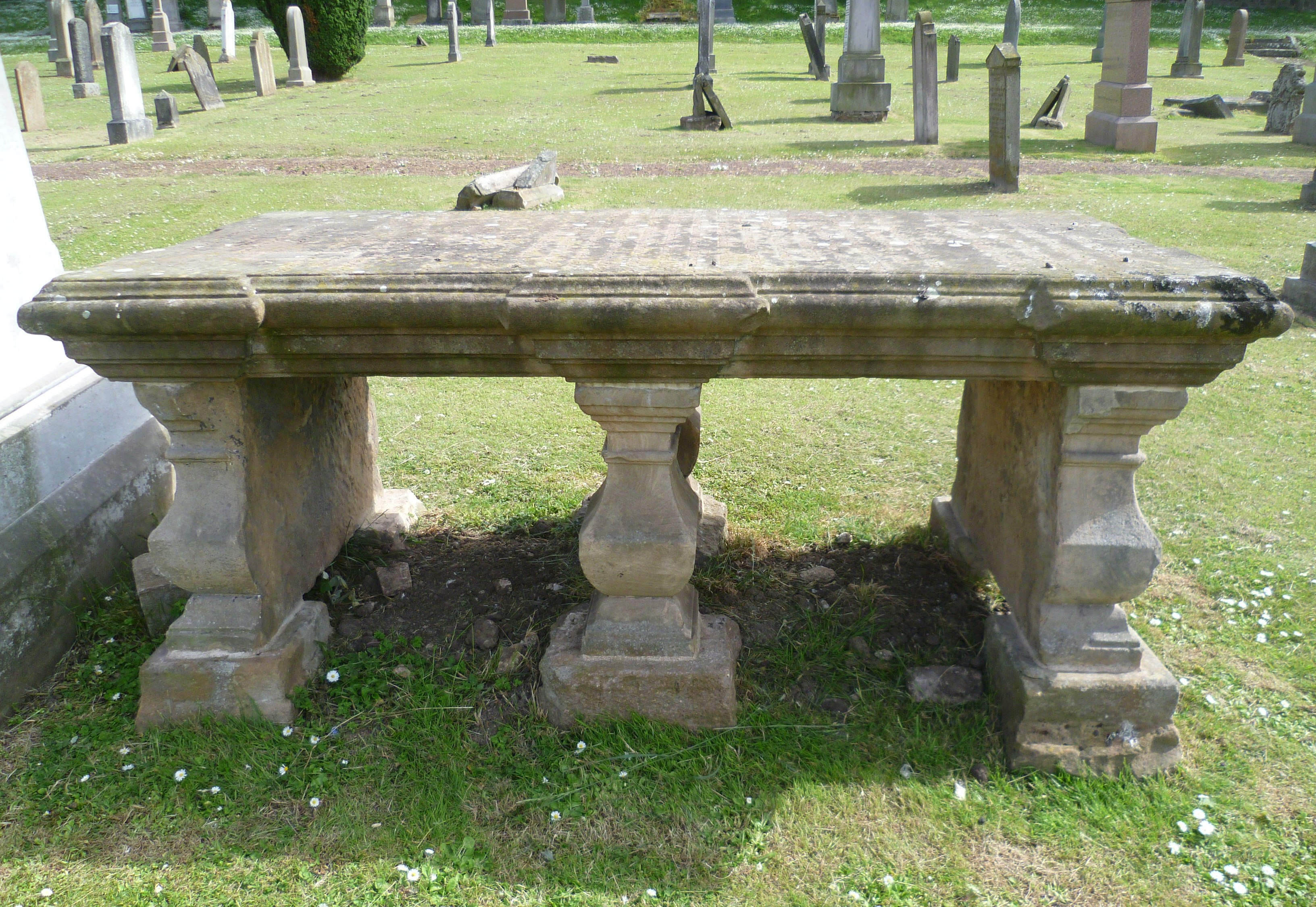 John Blackadder's tombstone, North Berwick Kirkyard